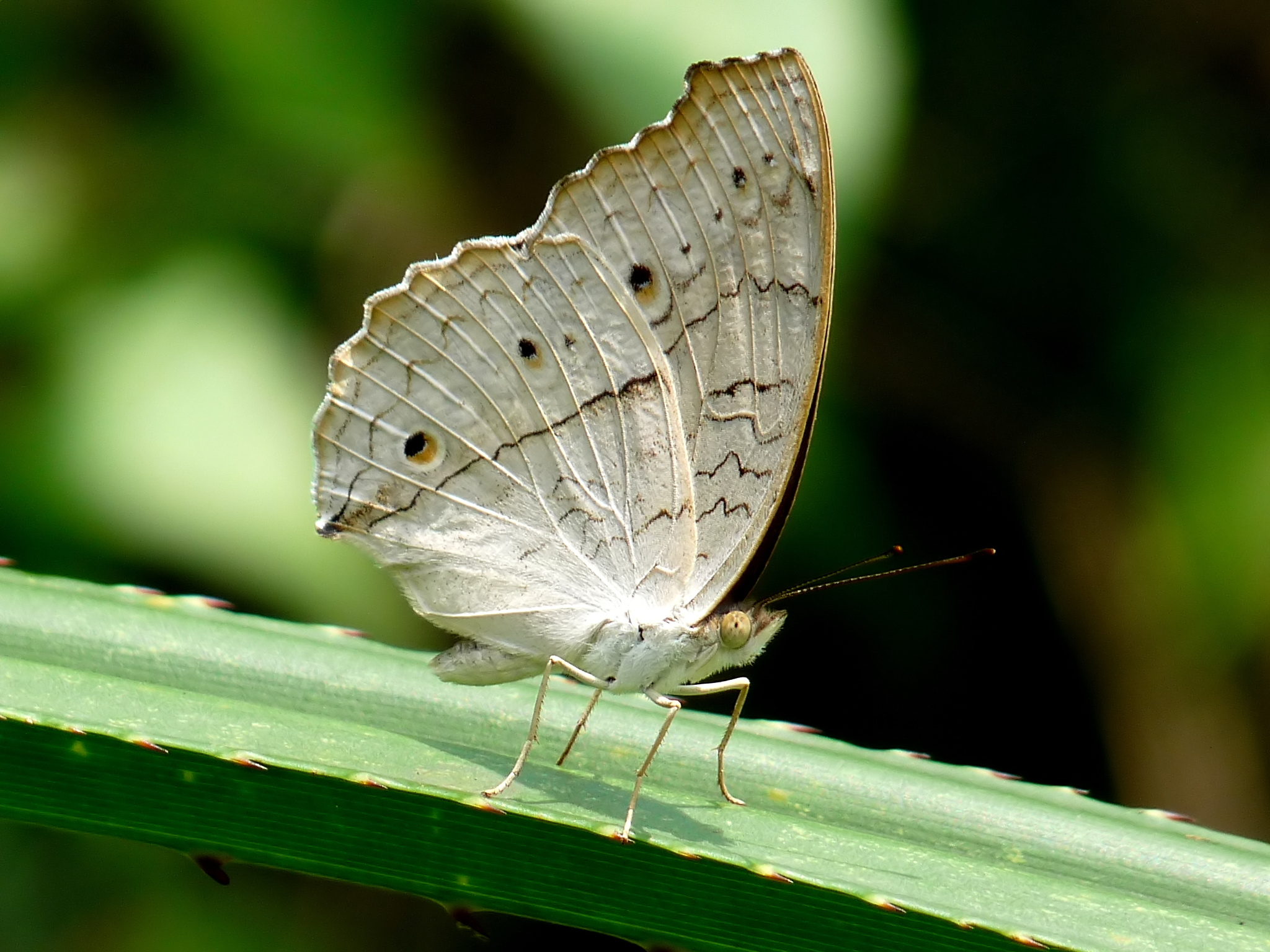 The Gray Pansy or Grey Pansy (Junonia atlites) is a species of nymphalid butterfly found in South Asia. Taken at Kadavoor, Kerala, India.